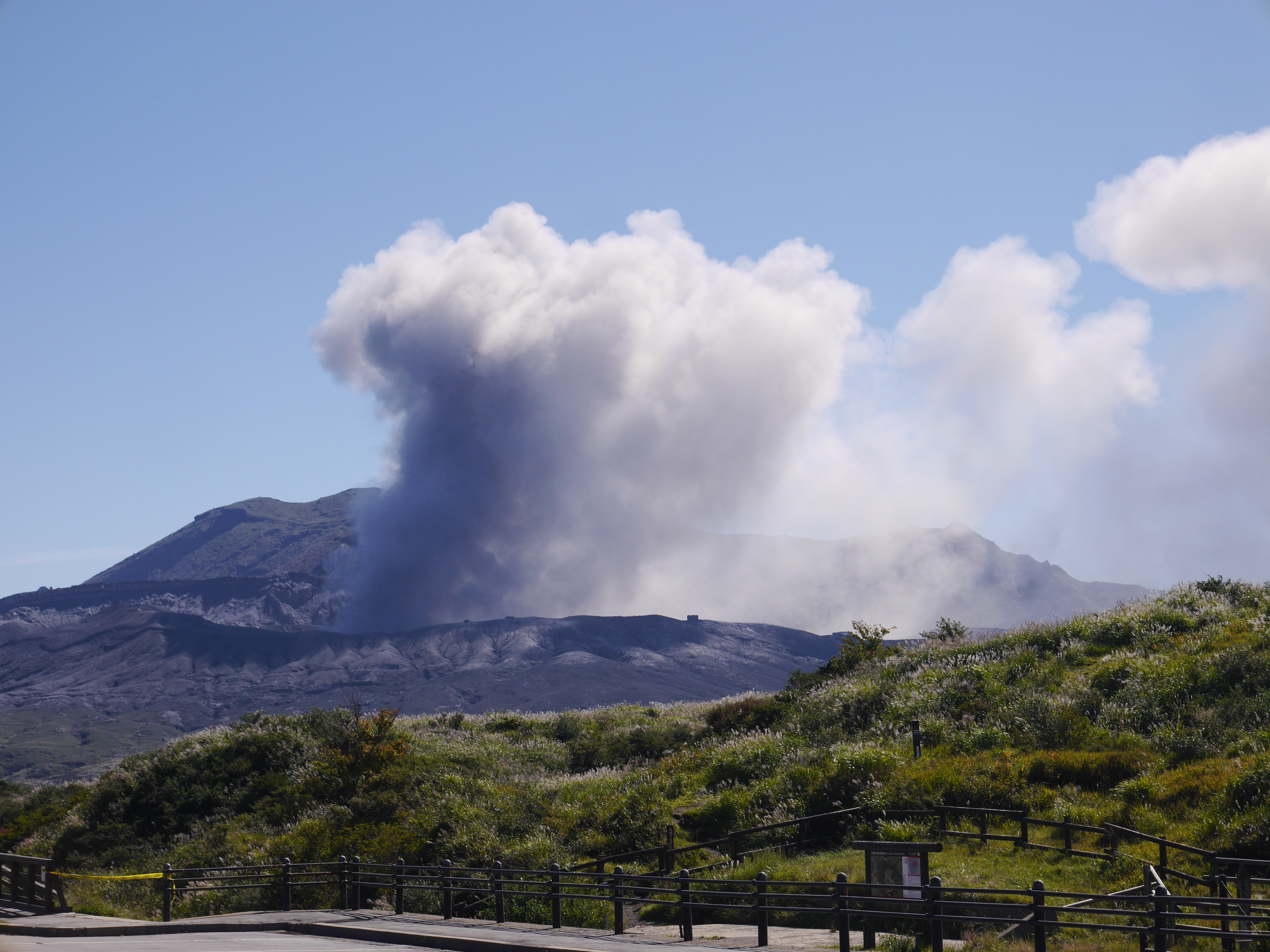 Aso Nakadake viewing from Kura Senri. Five days after the eruption on 15 September 2015